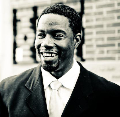 Michael Jai White at the 2009 Deauville American Film Festival.